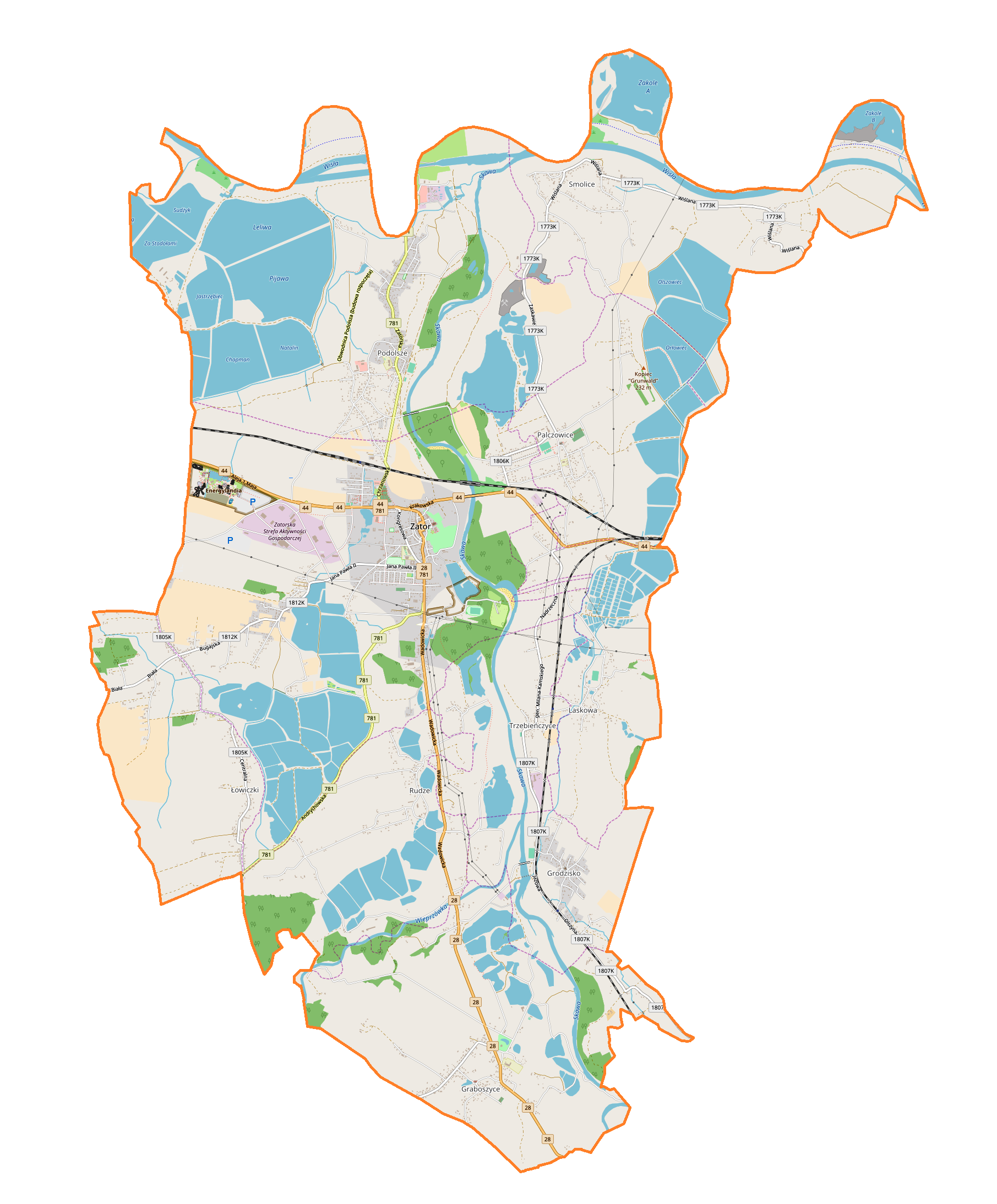 Location map